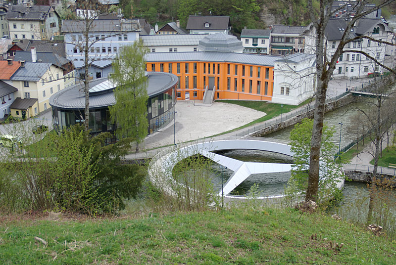 Mercedes bridge in Bad Aussee, Styria, Austria